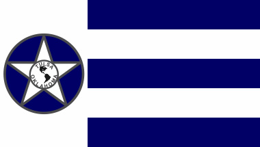 Official municipal flag of Tulsa, Oklahoma from 1941 to 1973.